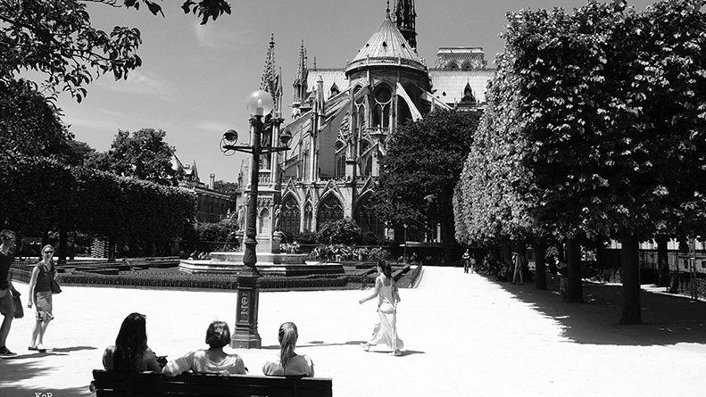 Photographie Kiki of Paris - Cathédrale Notre Dame de Paris, France